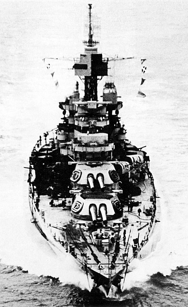 Bow view of USS Maryland (BB-46) under way in March 1944. US Navy photo according to , therefore PD-USGov